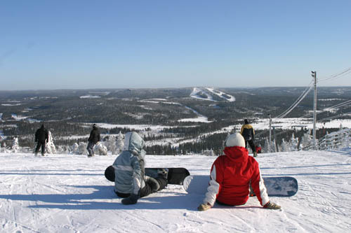 Iso-Syöte, Pudasjärvi, Finland